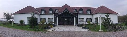 Good Samaritan Children's Home, Zakarpattia Oblast, Ukraine